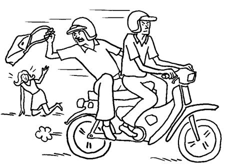 Picture of Snatch Thieves - Snatch Thieves